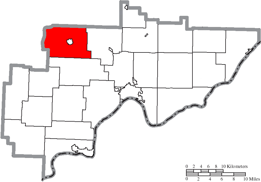 Map of the municipal and township boundaries of Washington County, Ohio, United States, as of the 2000 census, with the location of Waterford Township highlighted. Township borders are shown only in unincorporated areas in order to differentiate incorporated and unincorporated areas more clearly.